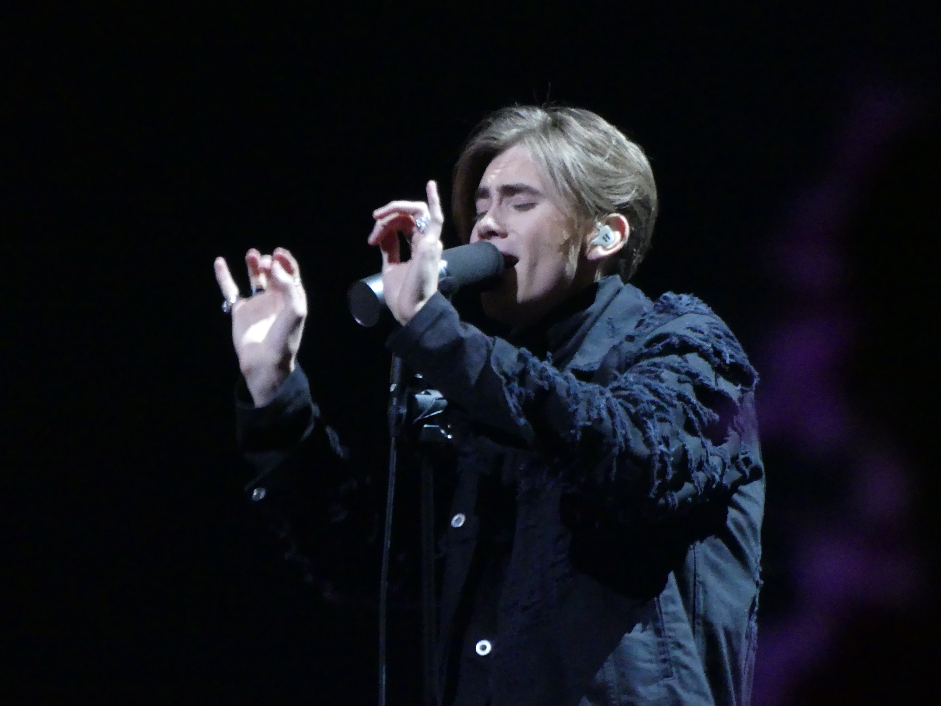 Felix Sandman.. At the Swedish Melodifestivalen 2018, in Kristianstad